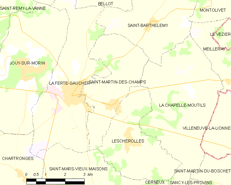 Map of French municipality Saint-Martin-des-Champs